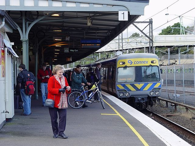 Camberwell station platform where passengers wait for a train to Flinders Street and the City Loop.